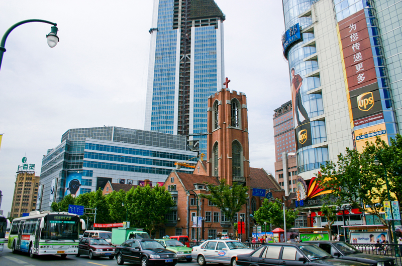 上海街景Scenery in ShangHai, China